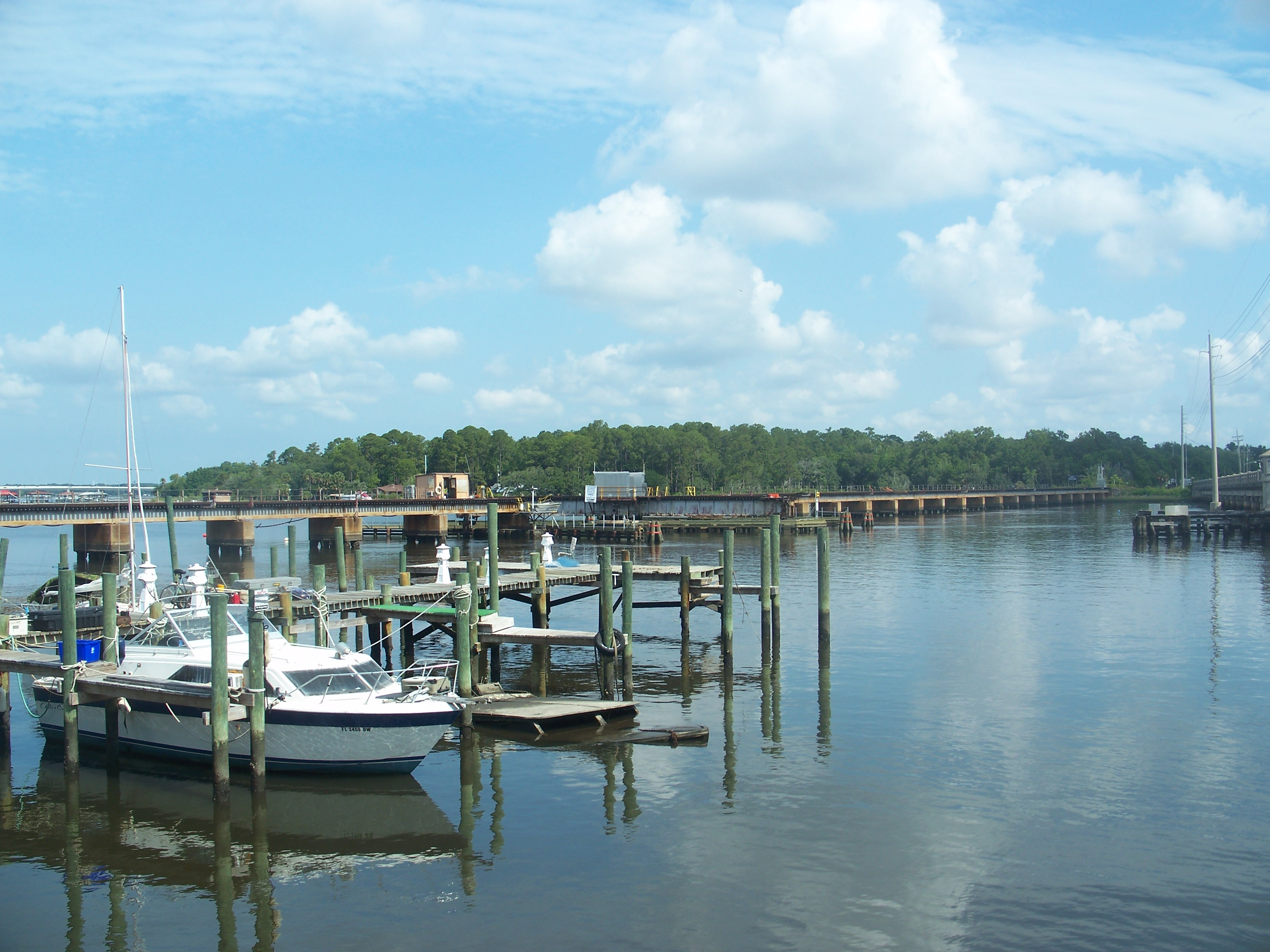 Jacksonville, Florida: Trout River near U.S. Route 17. The railroad bridge is for the CSX Kingsland Subdivision.